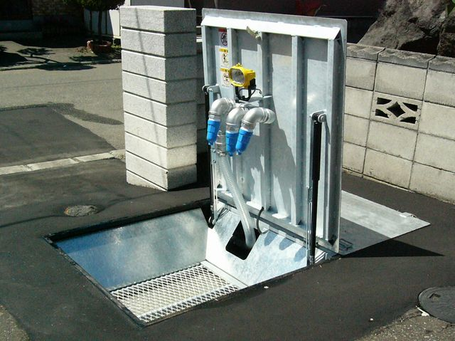 Hot water spray type snow melter